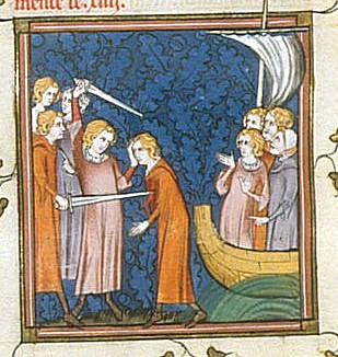 The murder of William I, Duke of Normandy